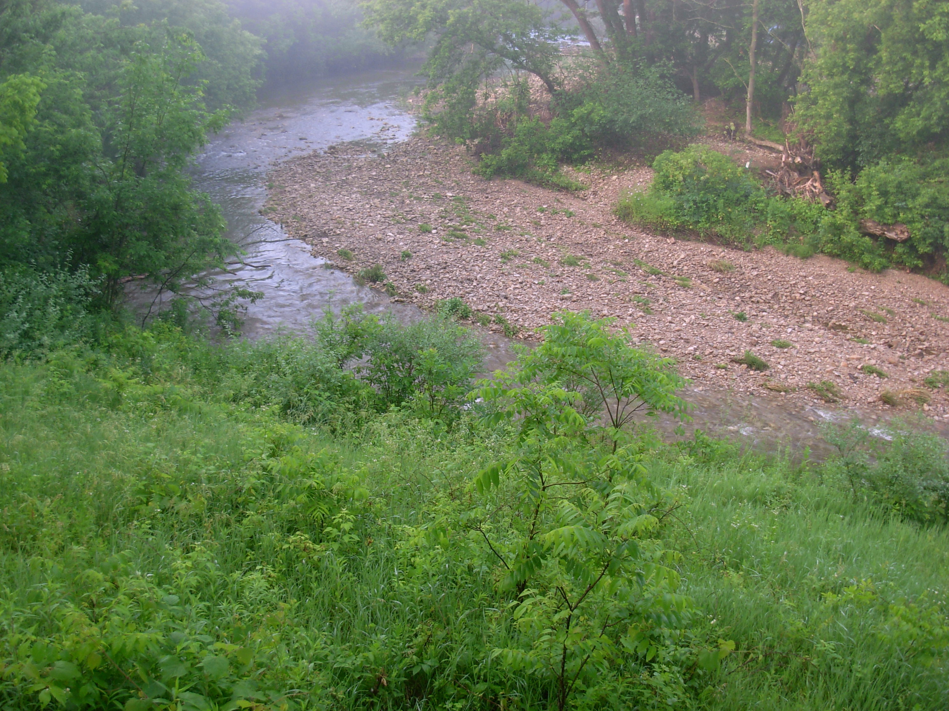 Early morning mist over the Whitewater River on the first day of summer in Whitewater State Park, Minnesota, United States